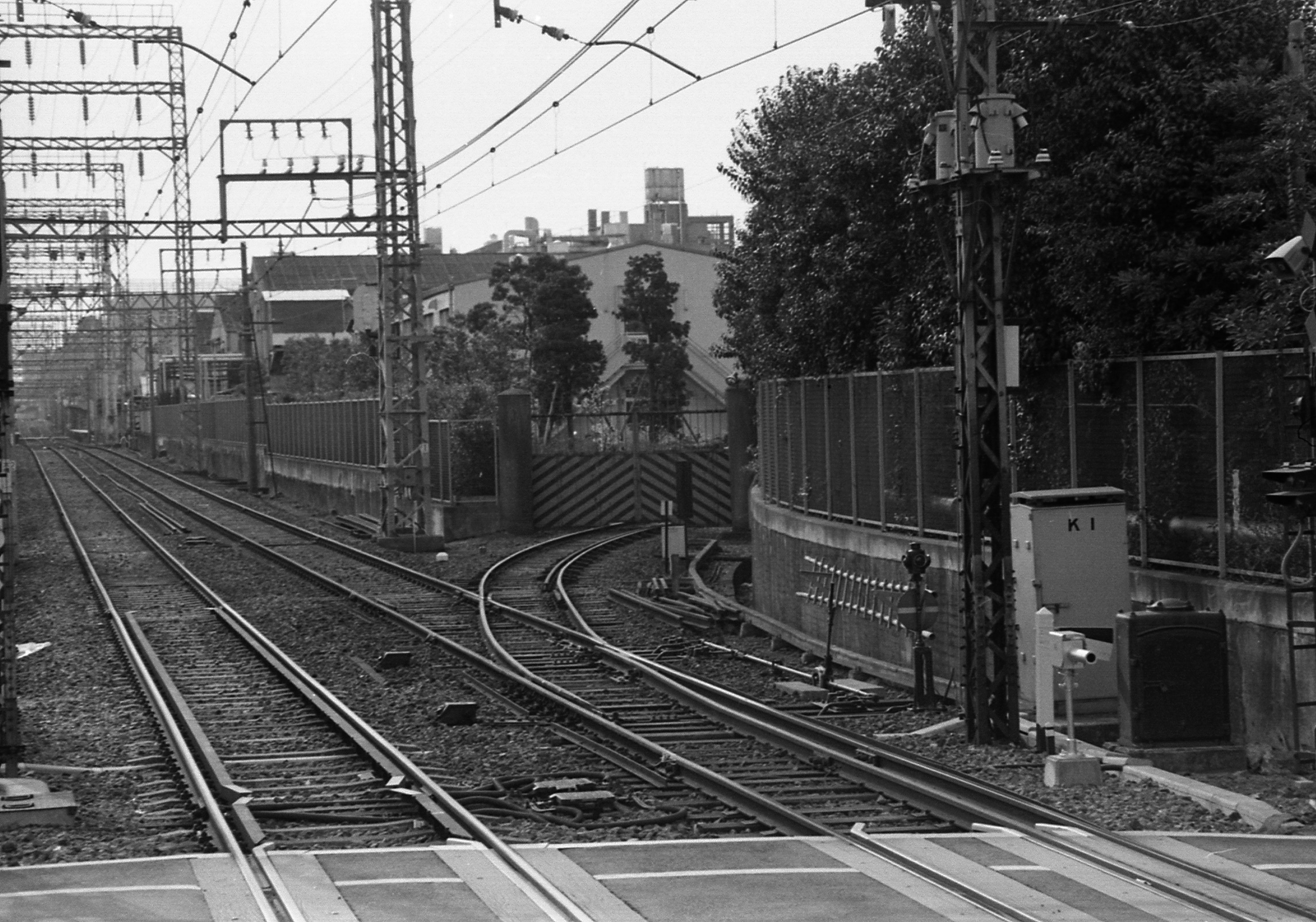 The gate to Ajinomoto plant nearby Keikyu Suzukicho station